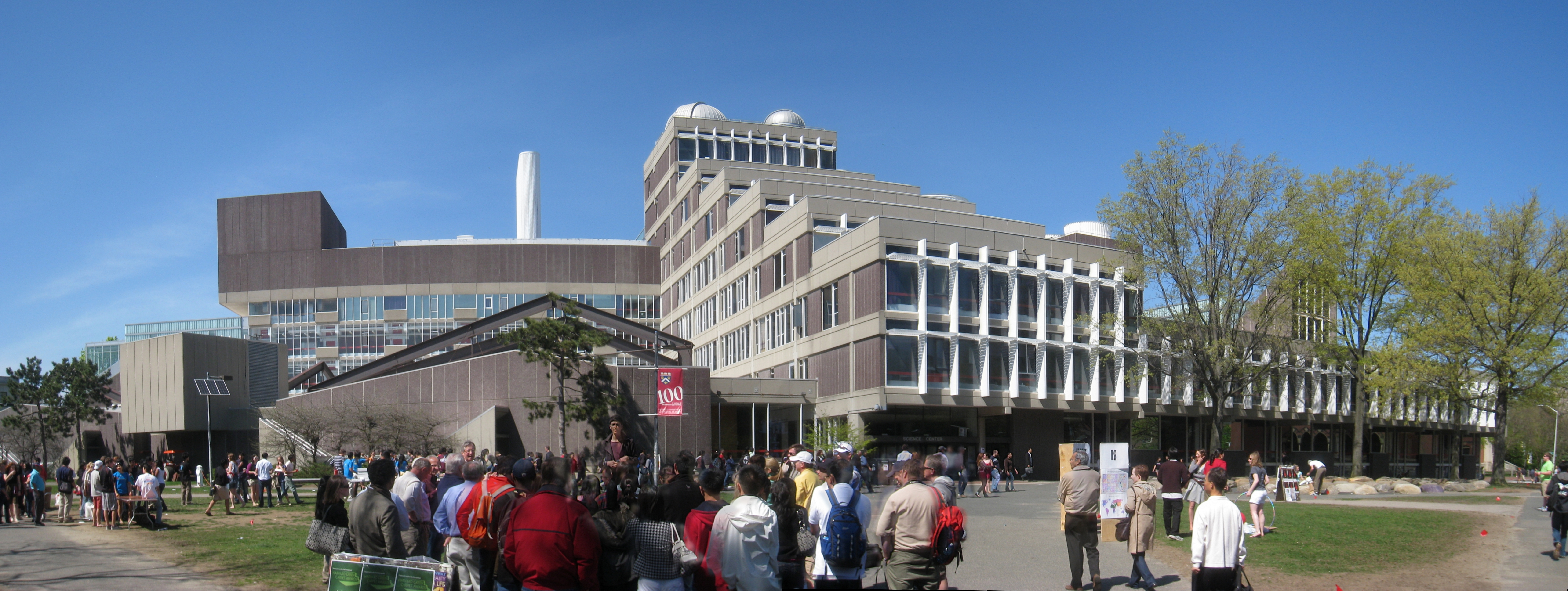 Panoramic view of the Harvard University Science Center, Cambridge, Massachusetts, USA.